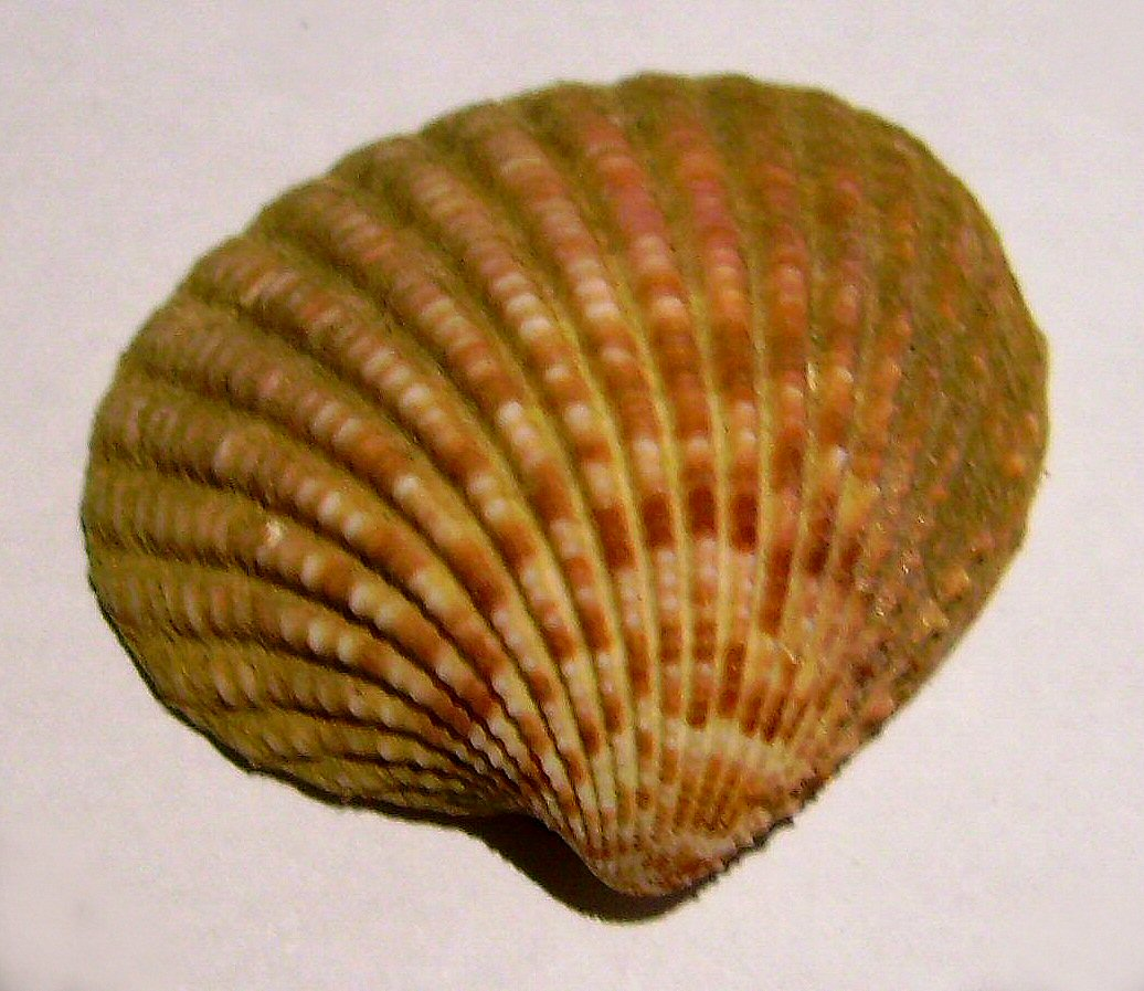 Purpurocardia purpurata dredged from north of Pakiri, New Zealand.